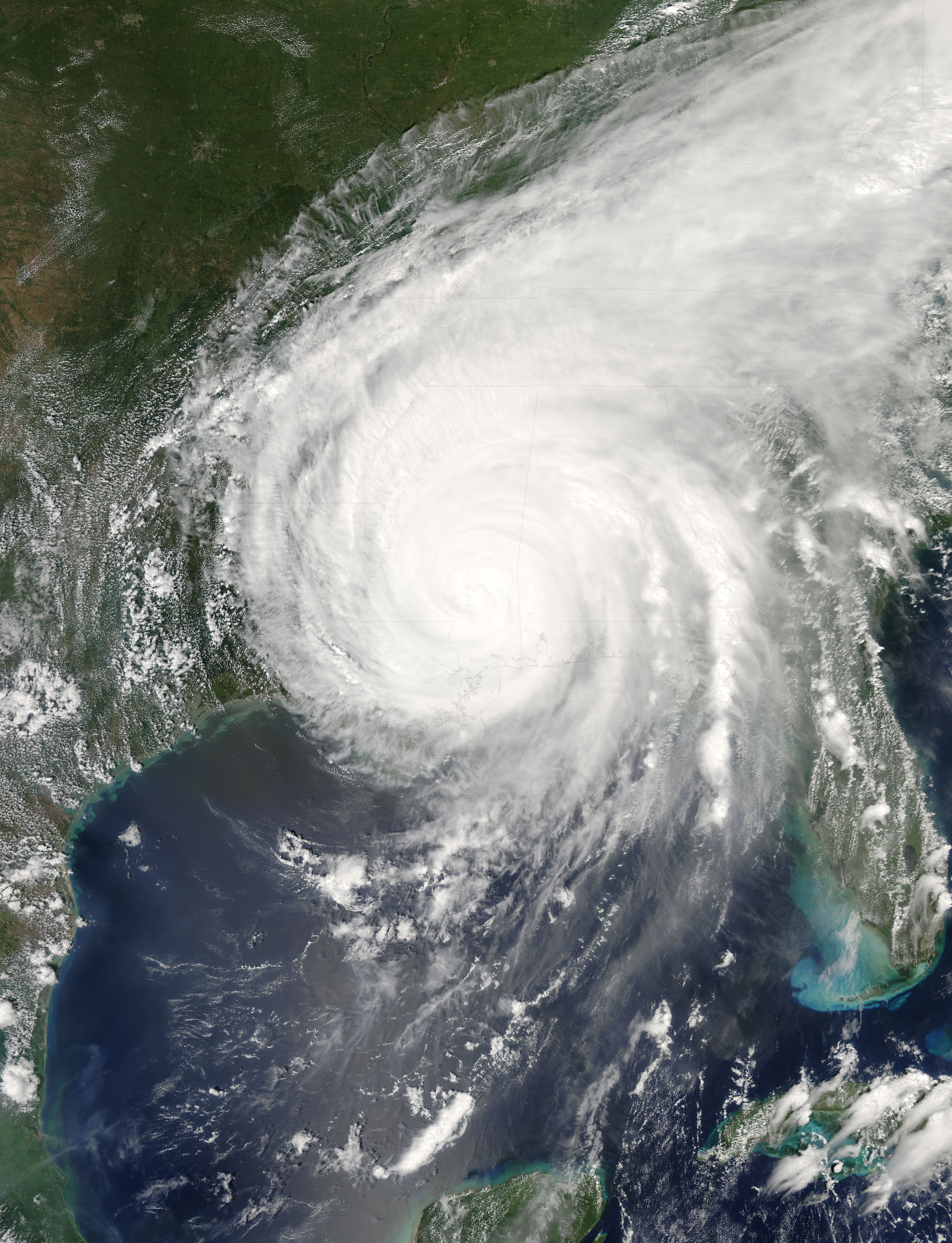 Hurricane Katrina was sprawled across all or part of 16 states at 2:15 p.m. CDT on August 29, 2005, when the Moderate Resolution Imaging Spectroradiometer (MODIS) on NASA’s Aqua satellite captured this image. After nearly eight hours over land, Katrina was still a Category 1 storm, with winds of 150 kilometers per hour (95 miles per hour) and stronger gusts. In this image, Katrina measures about 1,260 kilometers (780 miles) from east to west and about the same distance from north to south across its center. While most states under its clouds have only experienced rain so far, Louisiana, Mississippi, Alabama, and Florida have all been pummeled by furious winds, heavy rain, and a powerful storm surge. Katrina was a strong Category 3 storm when its eye moved ashore earlier in the day. The large image provided above has a resolution of 250 meters per pixel. The MODIS Rapid Response Team provides the image in additional resolutions.